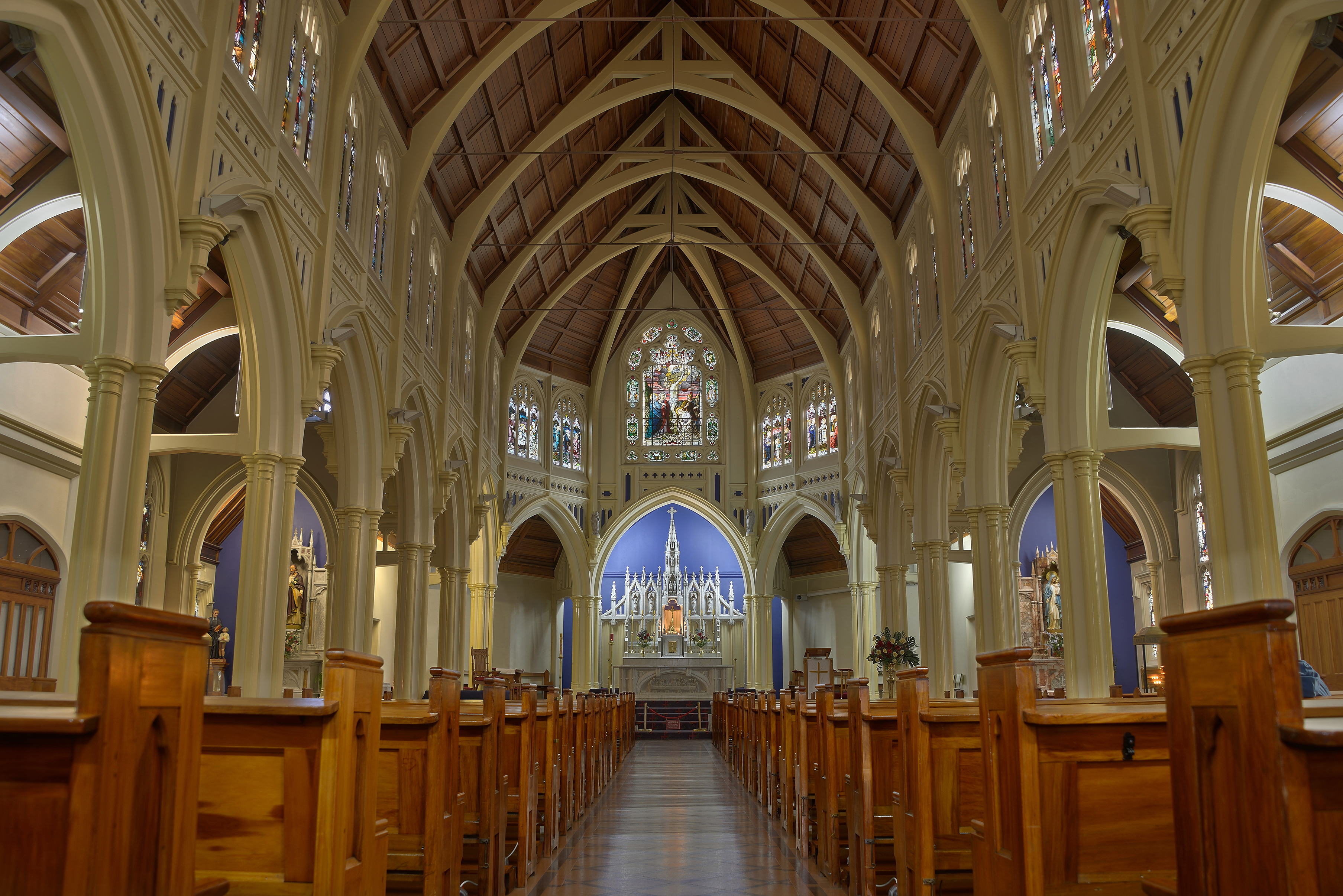 Designed by Frederick de Jersey Clere for the Society of Mary (Marists). Work was completed on the structure in early 1922, and blessed and opened on 26 March 1922. The building was restored in 2004.